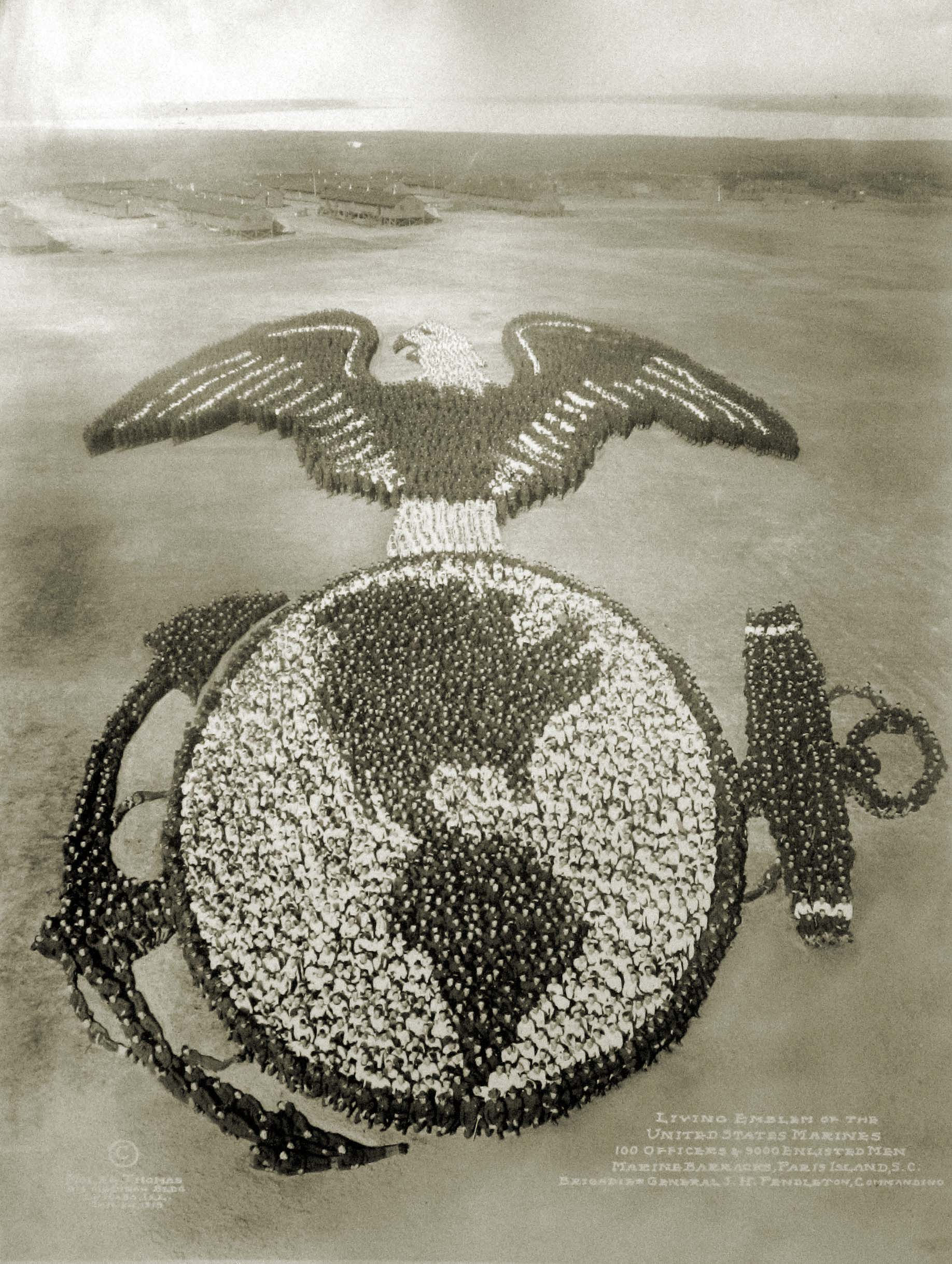 Living Emblem of the United States Marines. 100 officers and 9000 enlisted men. Marine Barracks, Parris Island, S.C.; Brigadier General J.H. Pendleton, Commanding. Mole & Thomas, Chicago Illinios, 1919.